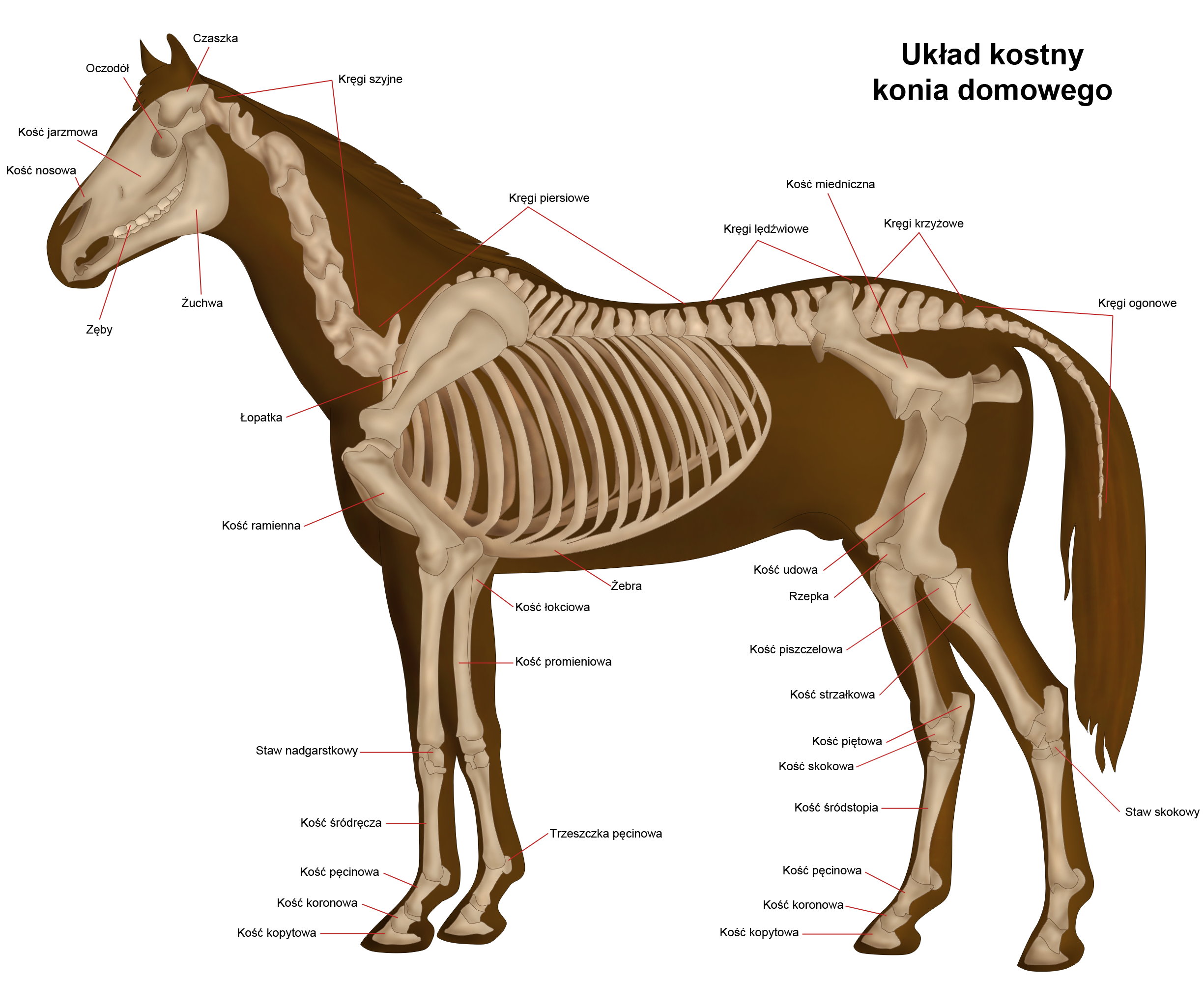 Morphology and Locomotive system of Equus Callibus (a common horse).